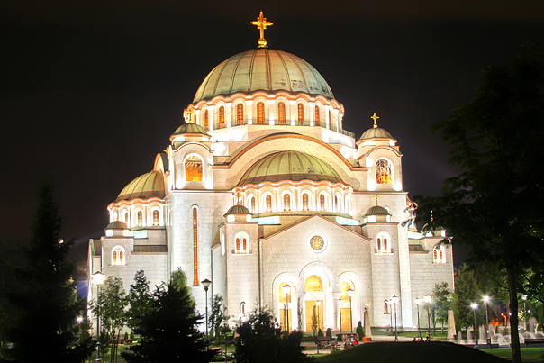 Hram Svetog Save (Beograd) - Night